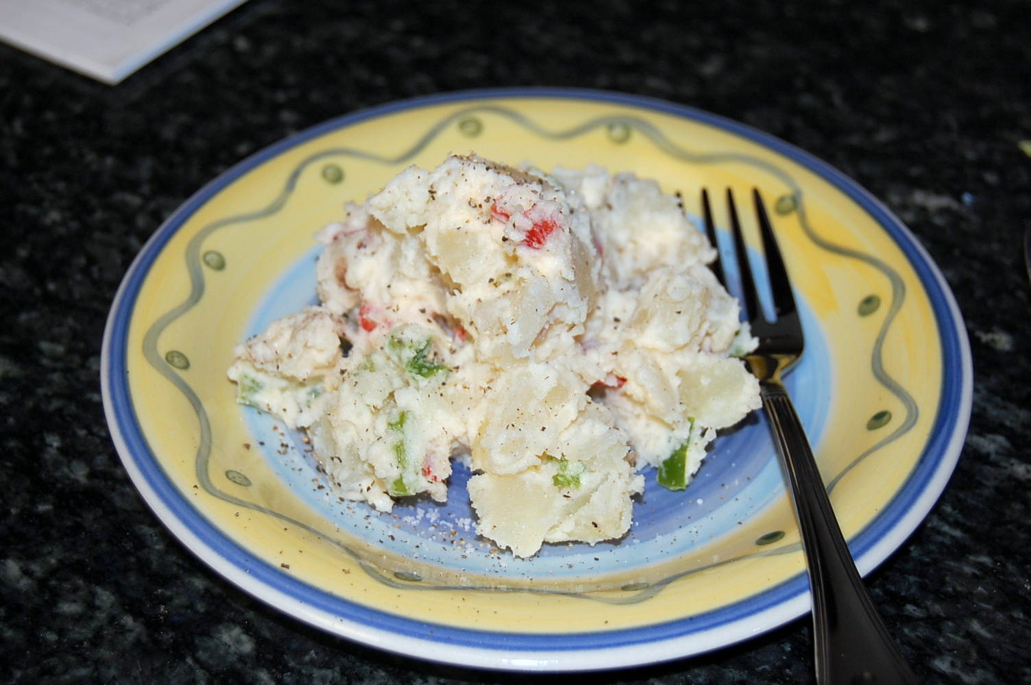 fresh potato salad